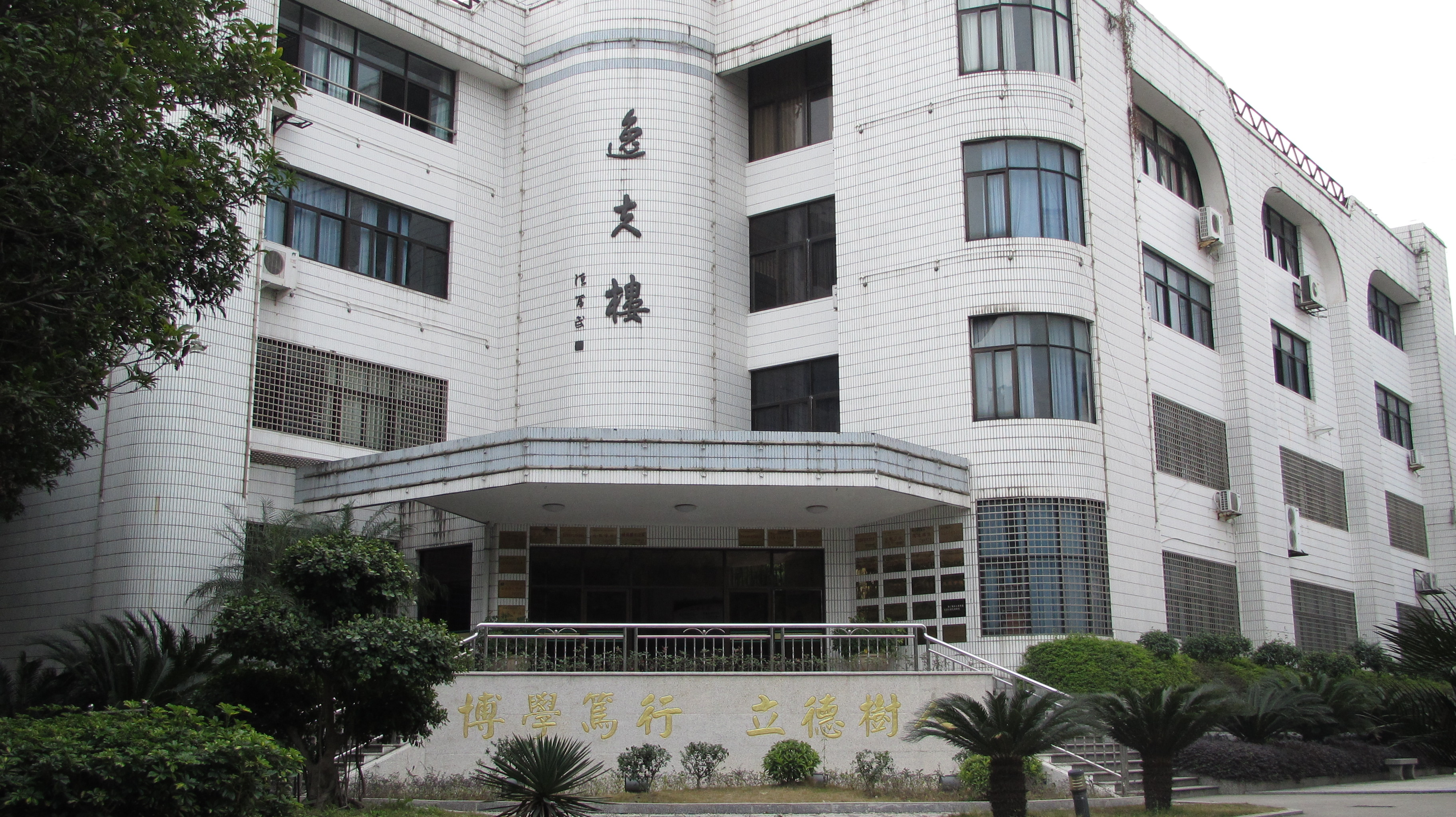 Yifu Building in Ningde Number One senior high school